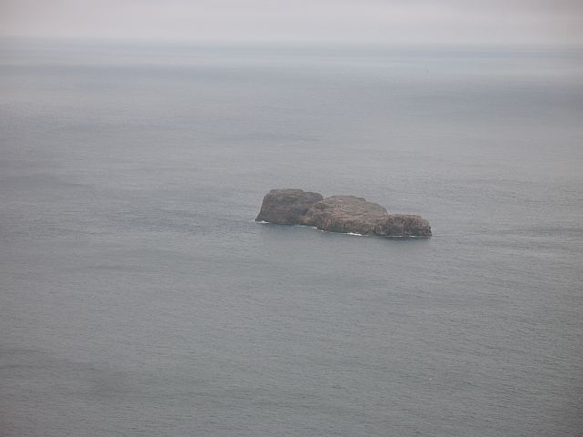 An Garbh-eilean - Garvie Island Bomb target off the north coast of the Parph. A small island, often used as the only live aerial bombing range in Britain. View from Clò Mòr